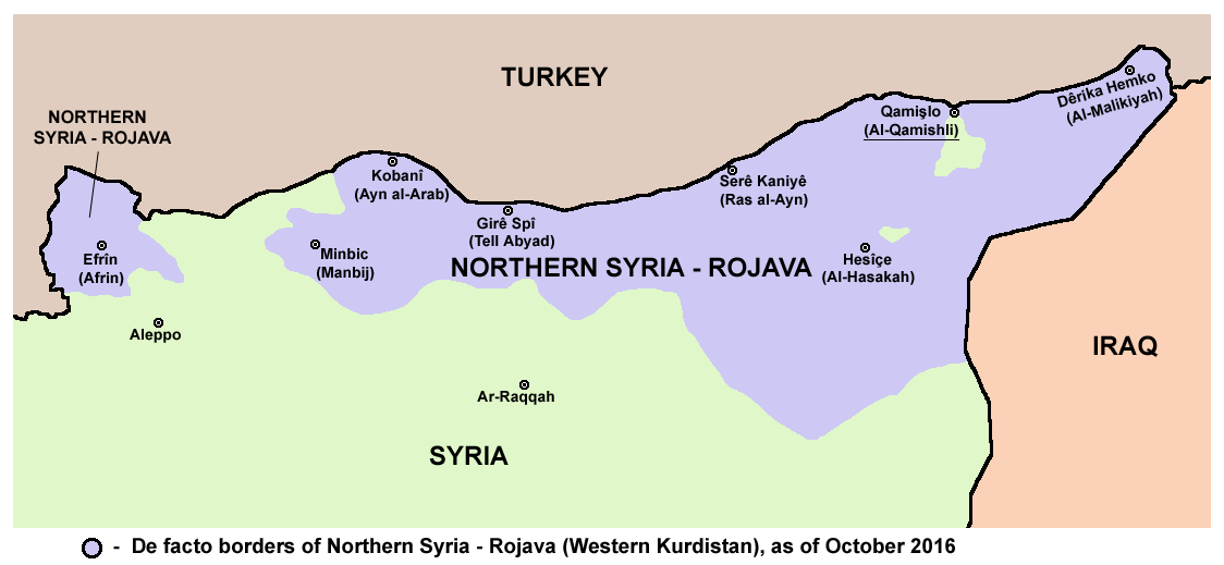 Map showing de facto borders of Northern Syria - Rojava (Western Kurdistan) in October 2016.